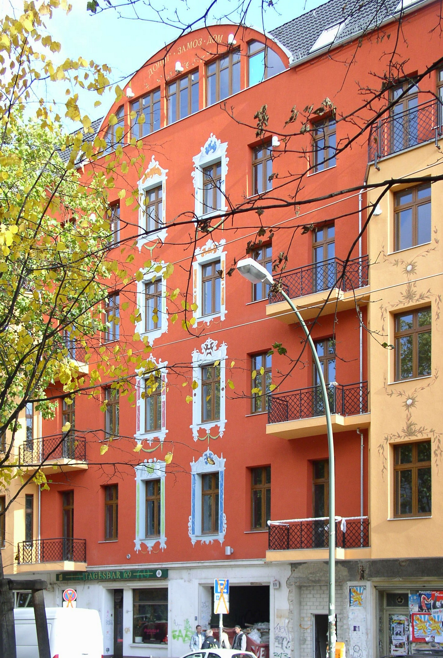 Part of the Warschauer Straße in Berlin